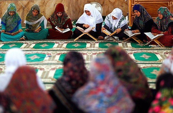 Ramadan Quran Reading by Juz' in Bandar Torkaman. see full gallery